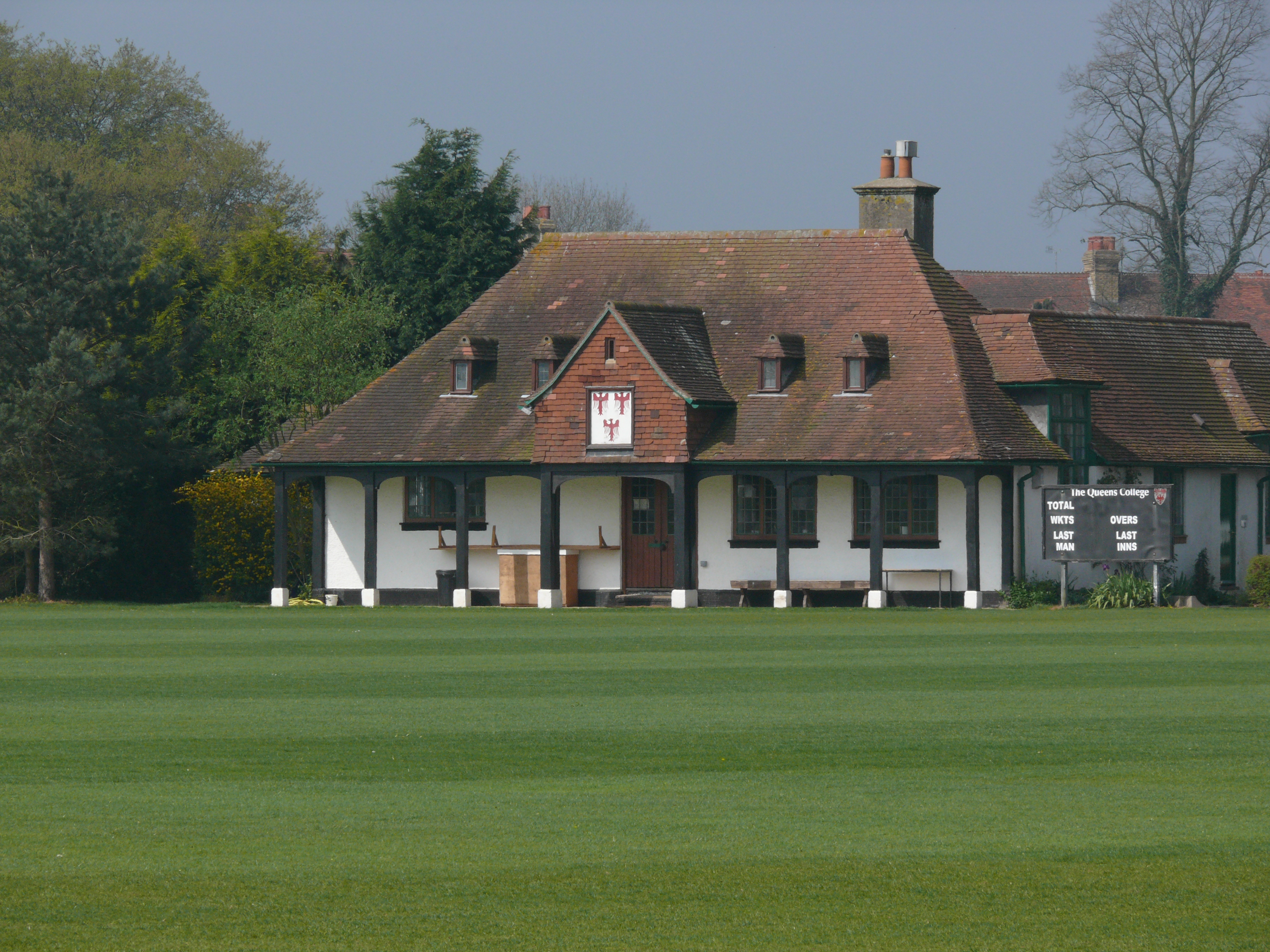 The pavilion on the sports grounds of Queen's College.